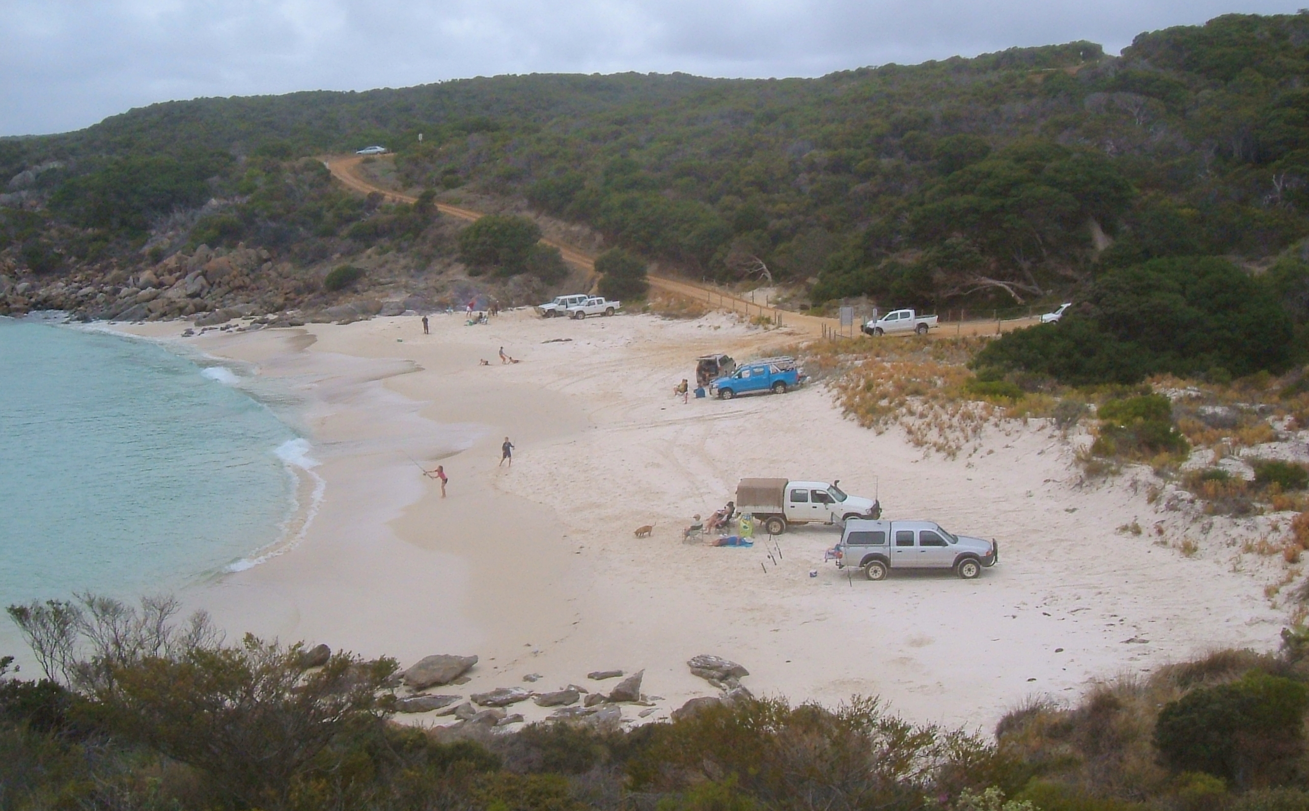 Little Boat Harbour, in Dillon Bay, near Bremer Bay, Western Australia.